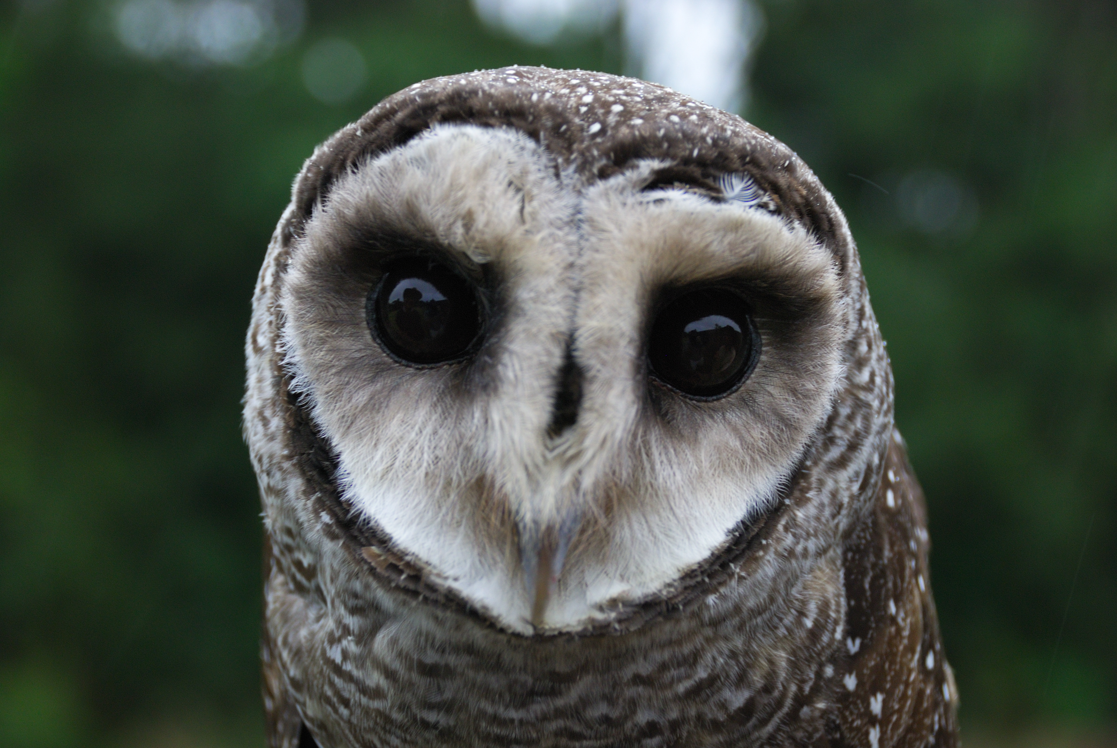 Lesser Sooty Owl Tyto multipunctata at Bonadio's Mabi Wildlife Reserve